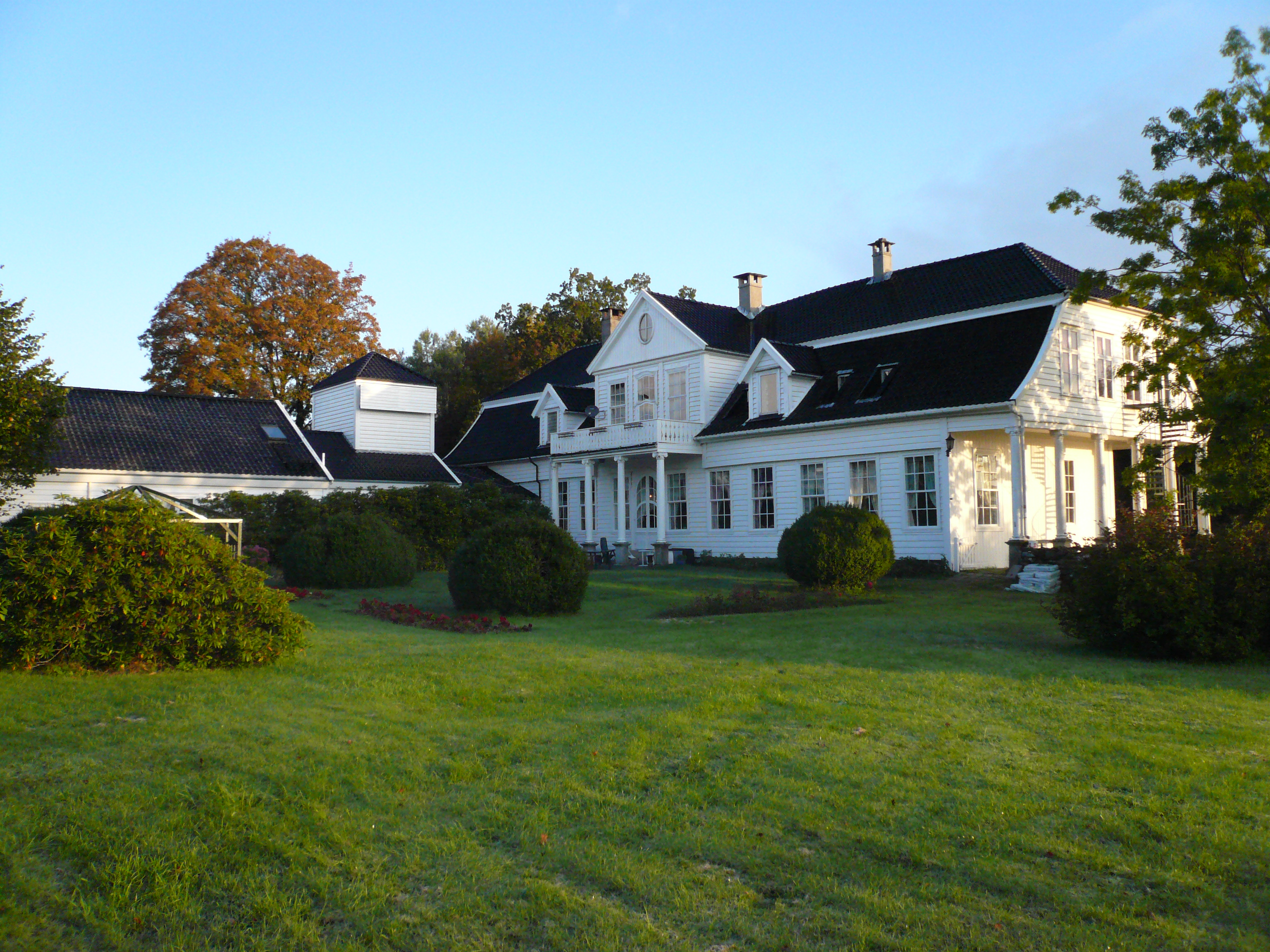 Garden at Thomas Erichsens Minde, Hop, Askøy, Norway (1793-1795).